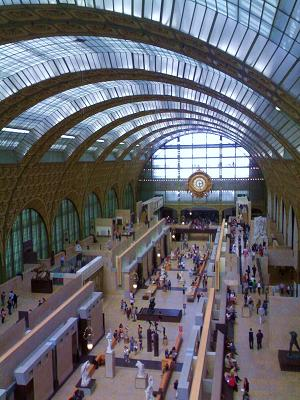 Orsay Museum, Paris, main.